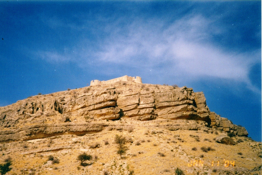 Rani Kot is a large fort in the region of the Kirthar Range, about 30 km southwest of Sann, in the Dadu district of Sindh, approximately 90 km north of Hyderabad in Pakistan.